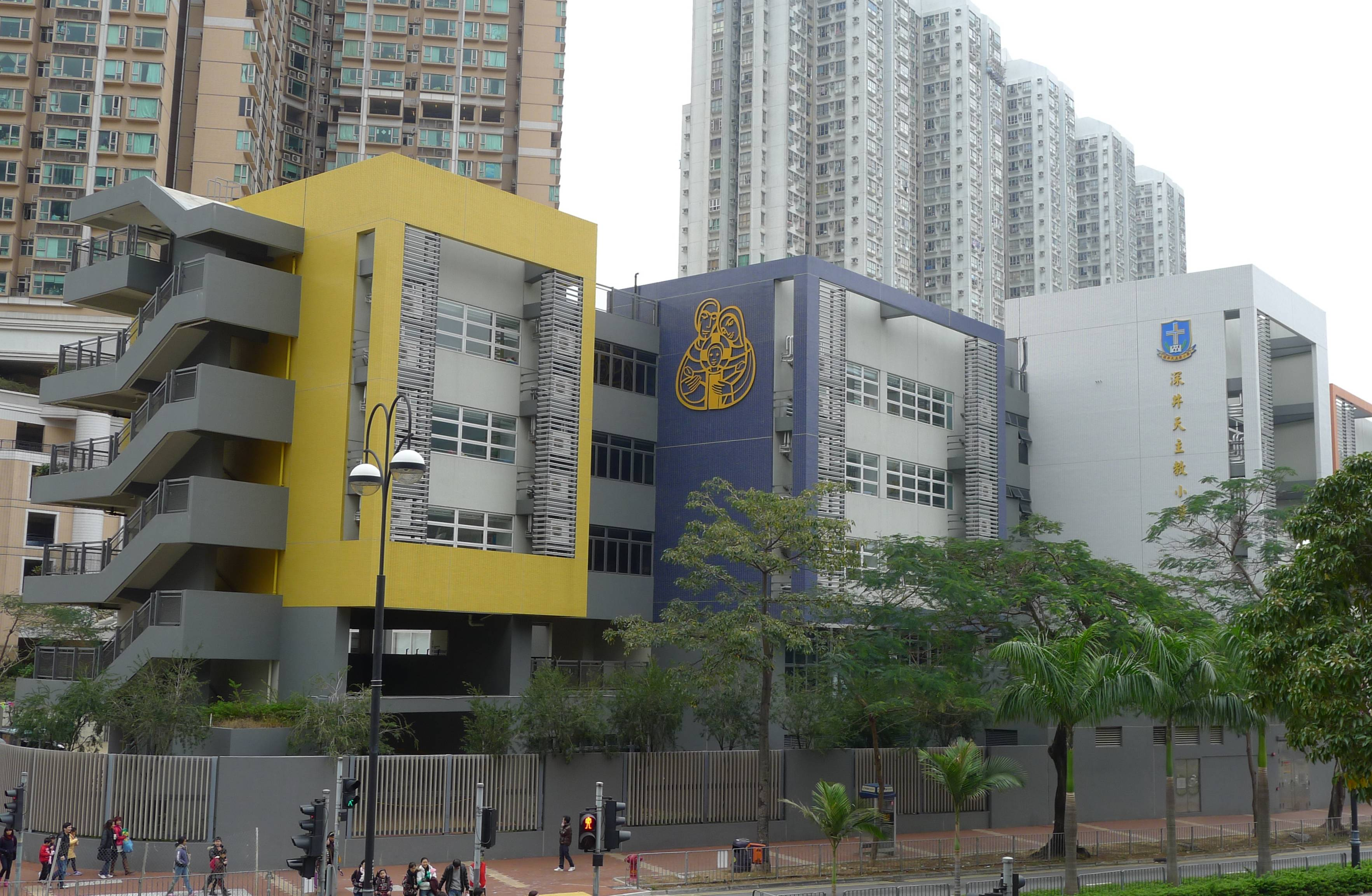 Sham Tseng Catholic Primary School